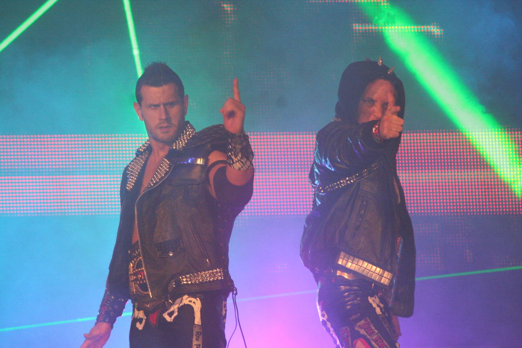 Professional wrestlers Alex Shelley and Chris Sabin at a TNA Impact! taping